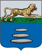 Sretensk 1790(Chita oblast), coat of arms (1790)